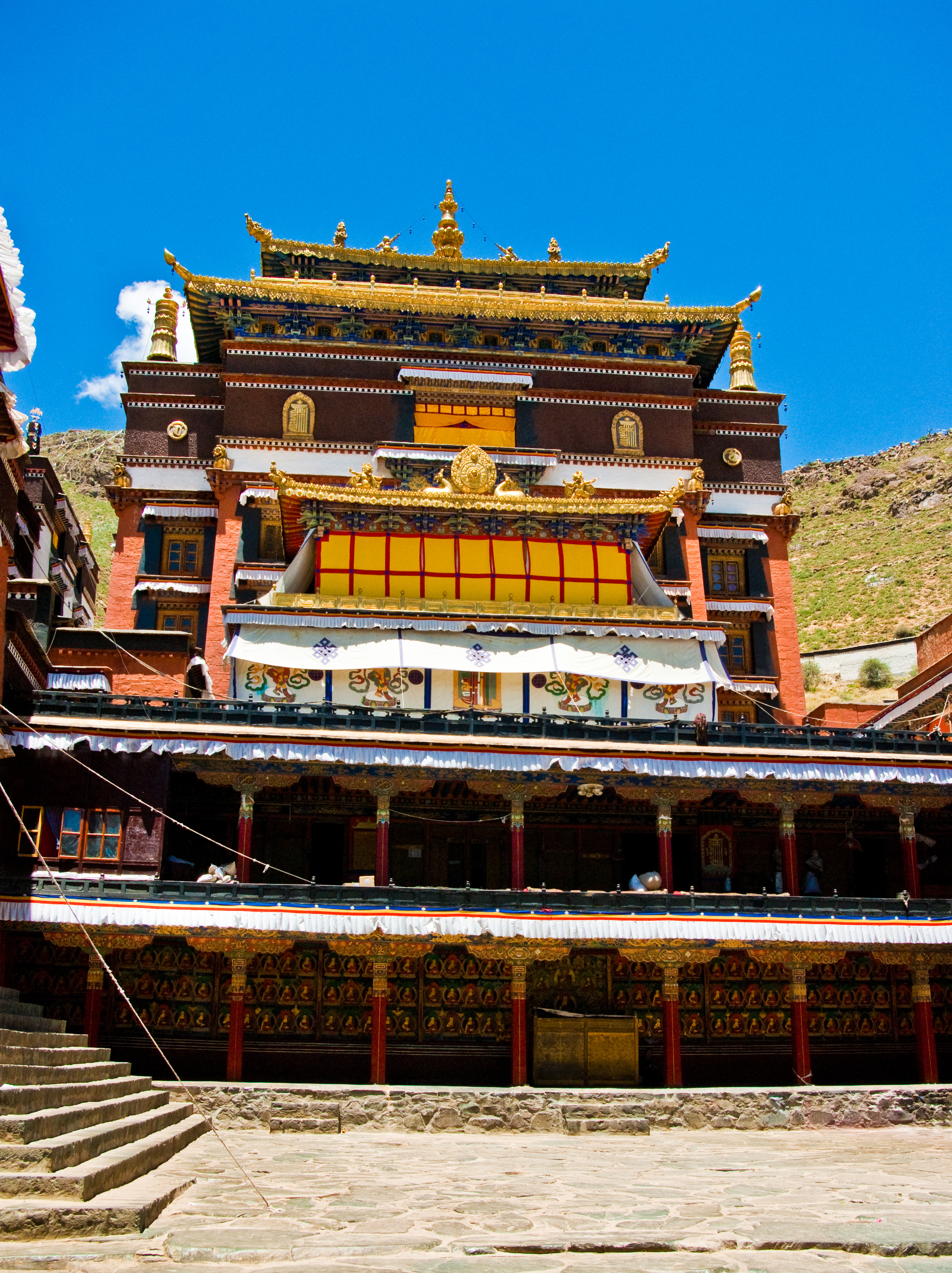 The Tashilhunpo